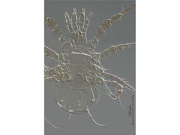 Amblyseius herbicolus Magnification: 20×